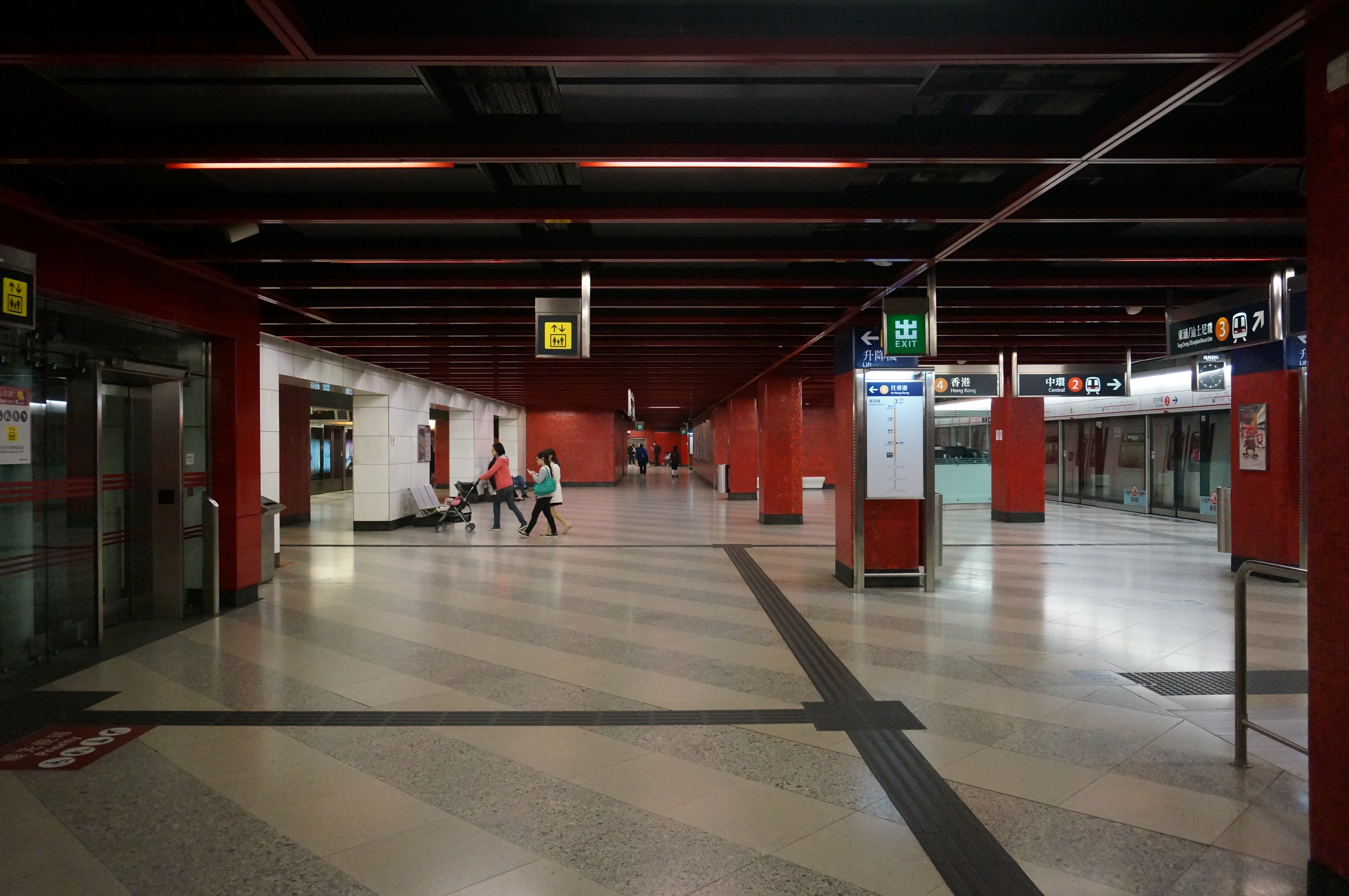 Site of Tsuen Wan Line former northbound track, now a corridor between platforms 2 and 4. 中文（香港）: 荔景站荃灣線北行路軌及月台遺址，現為2號及4號月台之間的車站通道